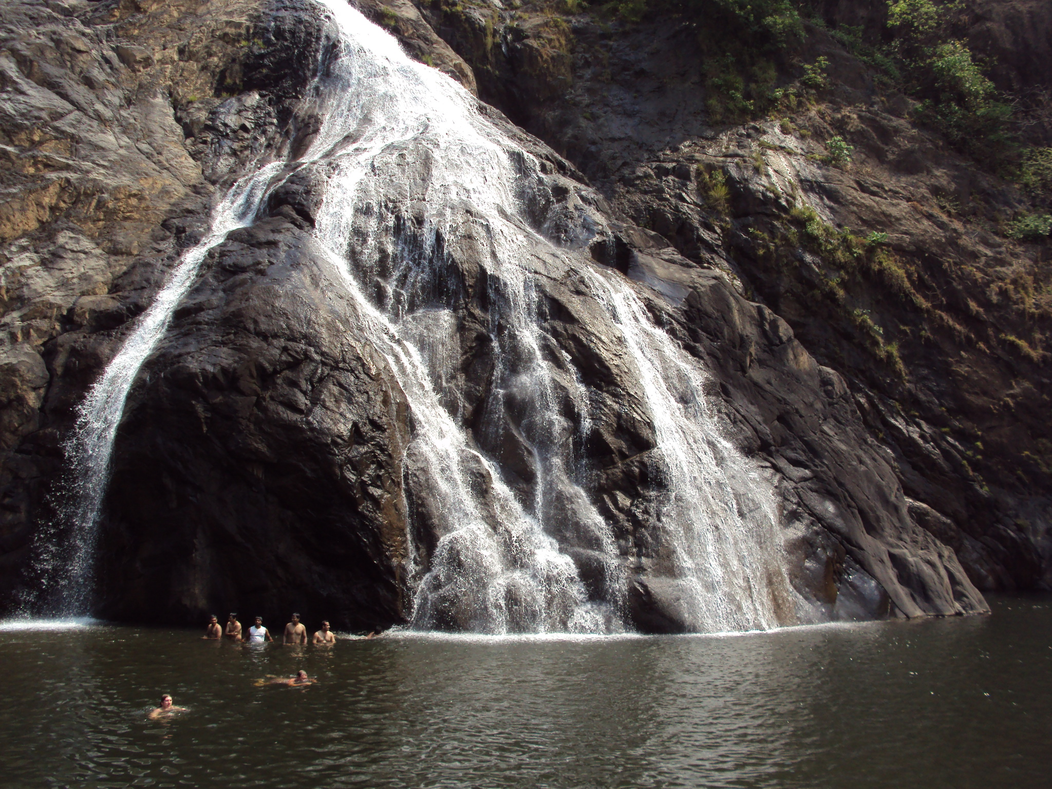 Dudhsagar Falls during March, 2010.